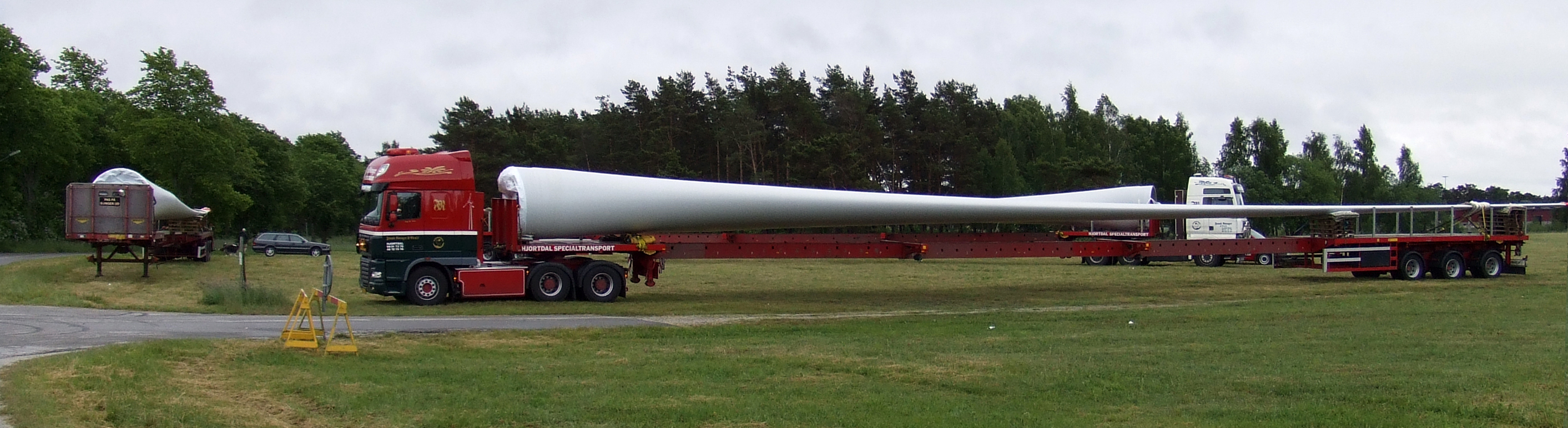 Trucks with components/blades for wind turbines stopping at Oscars stenen at the old P 18 area South of Visby before continuing further South with their cargo. Gotland, Sweden.